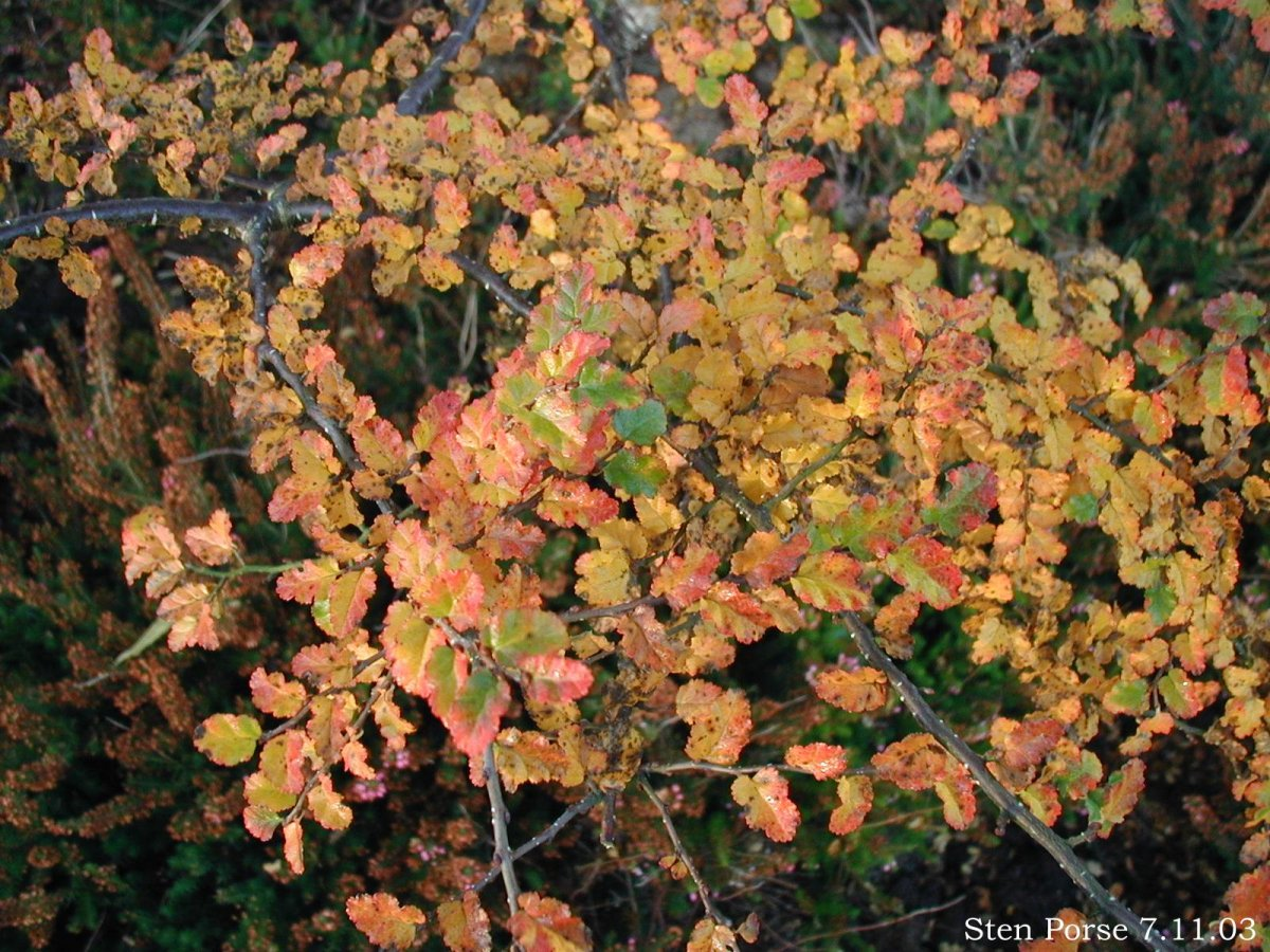 Nothofagus antarctica, twigs with leaves, close-up of autumn colours. Cultivated, Denmark